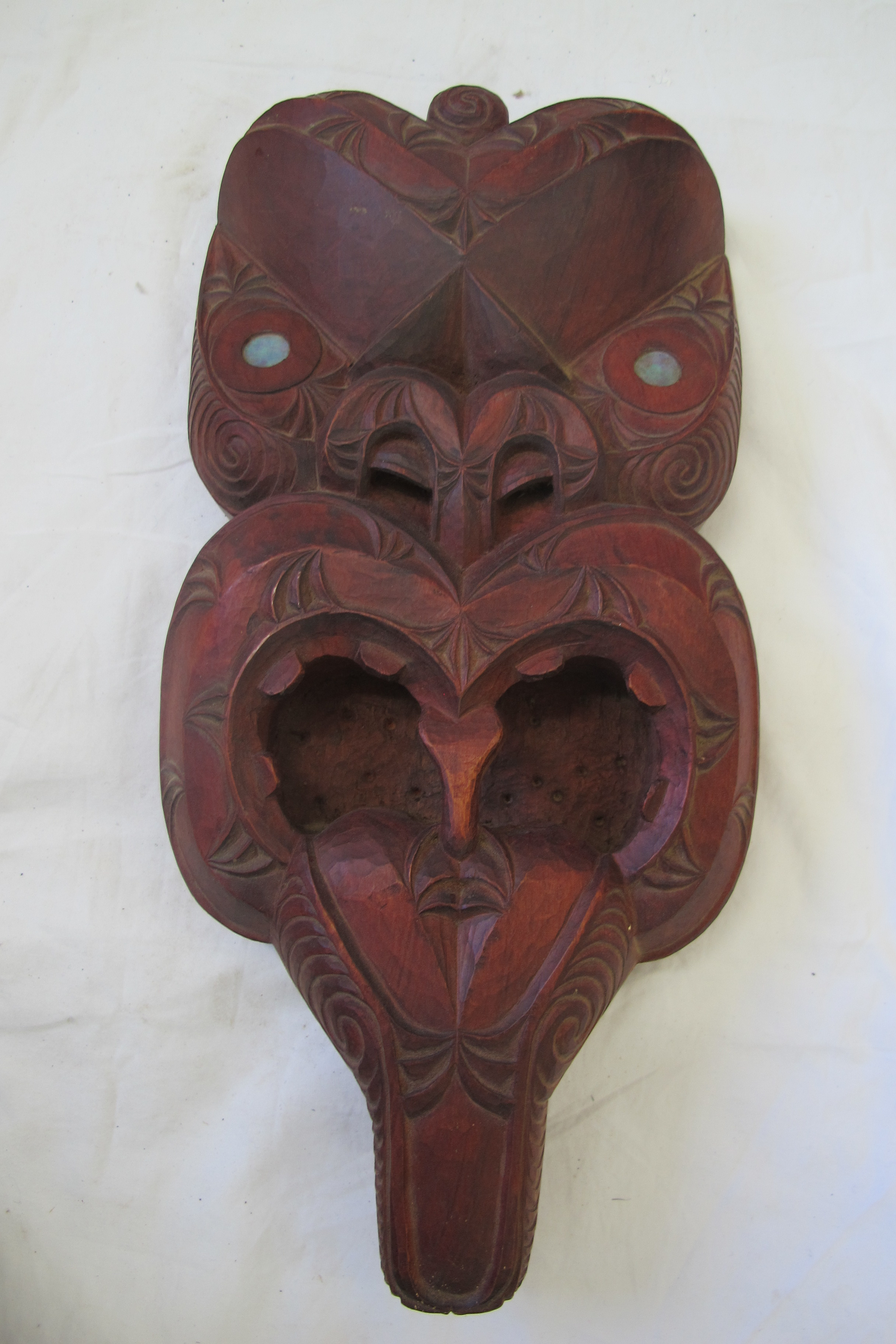 Maori meeting house god with Paua shell eyes. Donated by donated by Col. Gibson, the carving is one of the exhibits held in the South Sea Islands Museum in Cooranbong, New South Wales